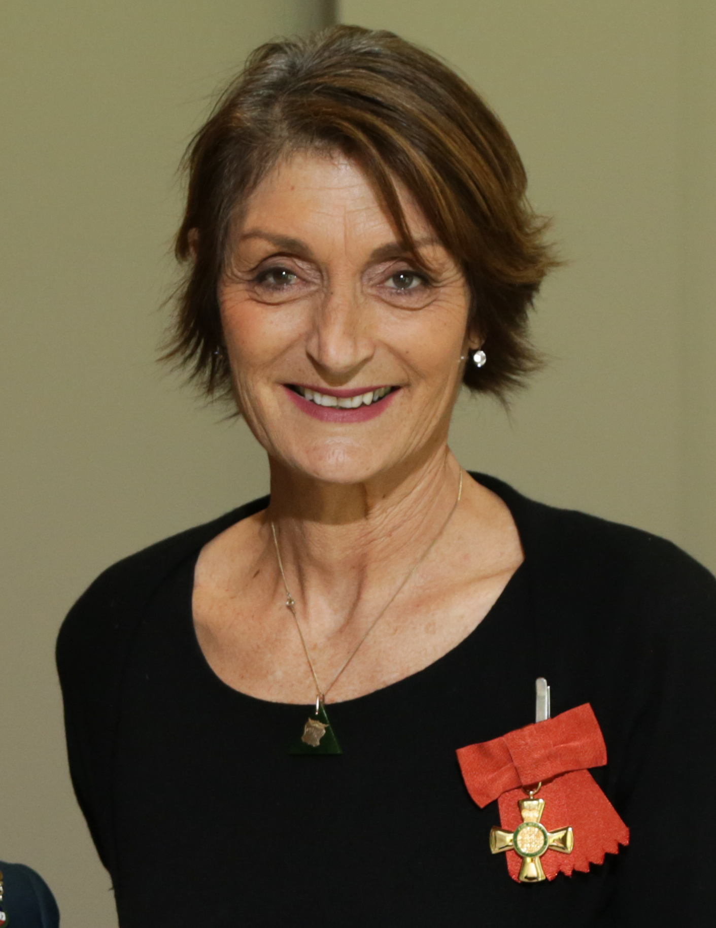 Margaret Forsyth, after her investiture as ONZM, for services to netball and the community, at Government House, Auckland, on 27 July 2020.